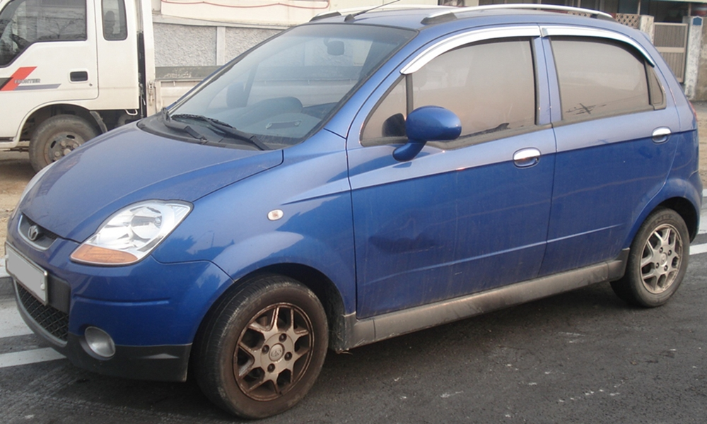 Daewoo All New Matiz